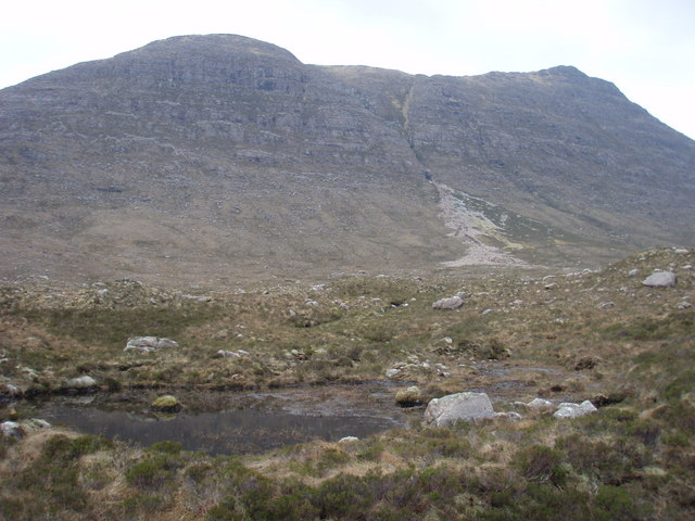 View towards Beinn a' Chearcaill